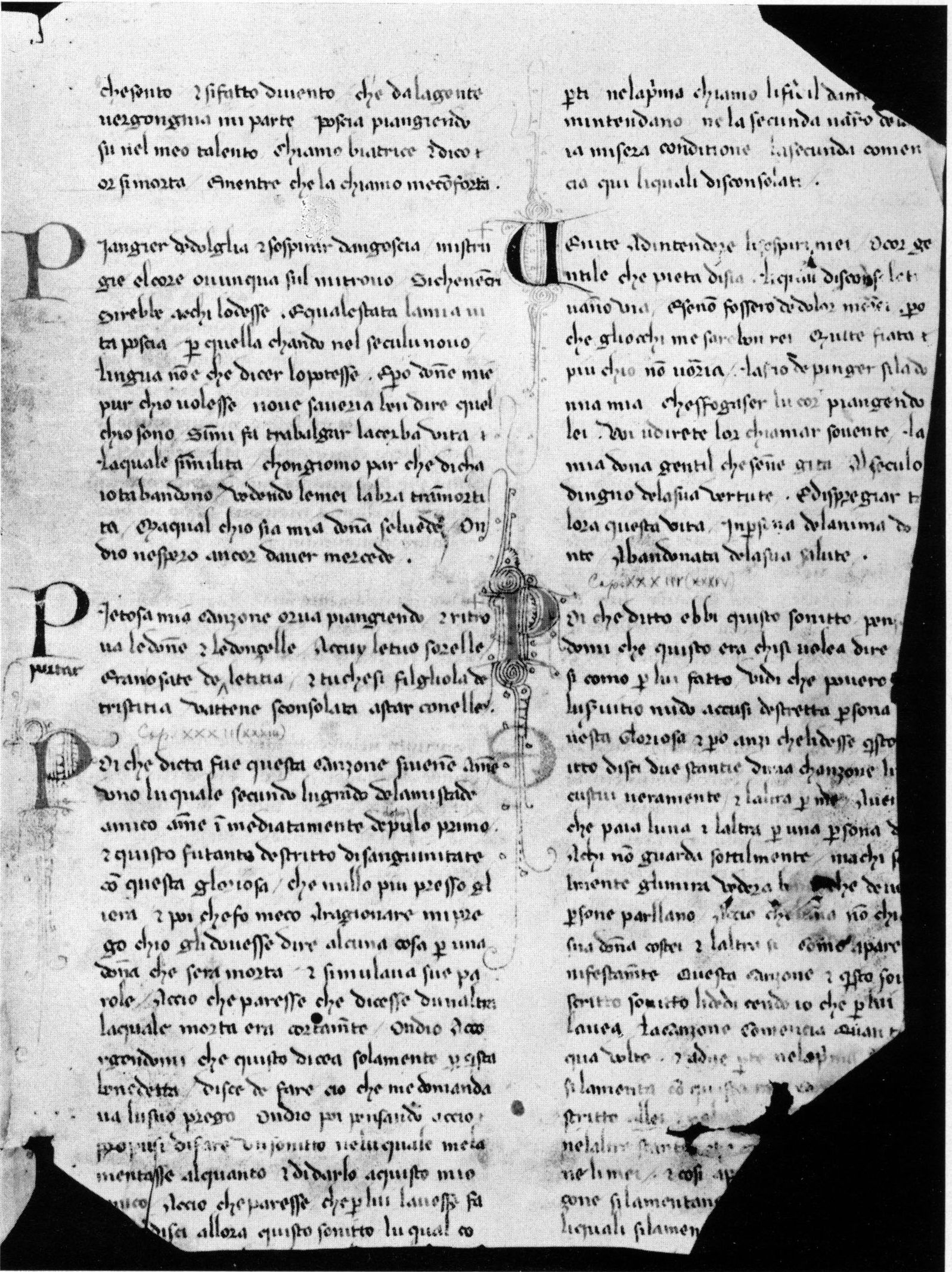 Dante, La Vita Nuova XXXI 14 – XXXIII 4, in one of the earliest manuscripts. Trespiano (Florence), Carmelo di S. Maria degli Angeli, fragment without shelf mark, fol. 2r.